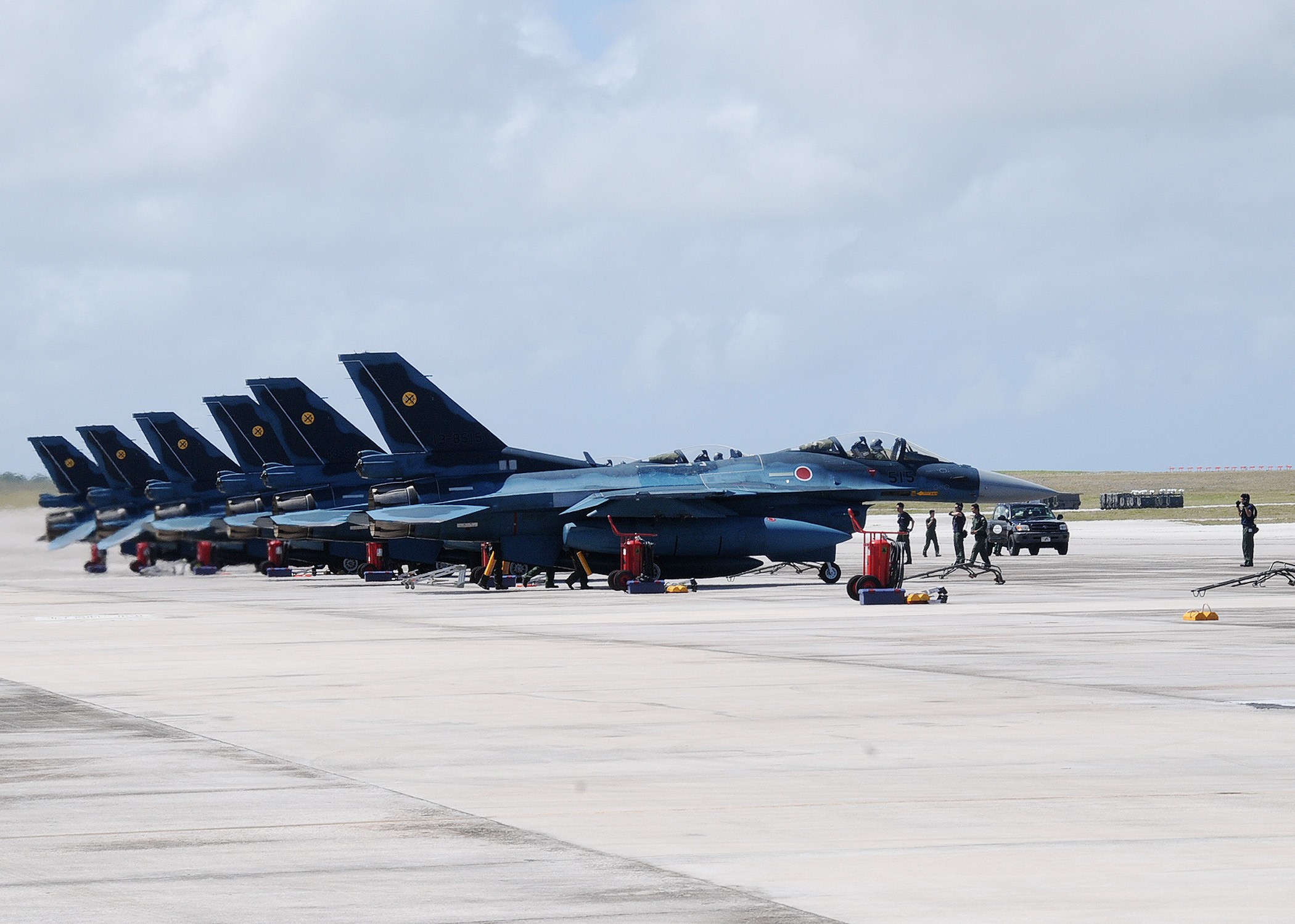 ANDERSEN AIR FORCE BASE, Guam - Japan Air Self Defense Force F-2 attack fighters from the 6th Squadron, Tsuiki Air Base, Japan, arrived here Jan. 30 to participate in Cope North Guam. (U.S. Air Force photo by Senior Airman Nichelle Griffiths) Nikon D300